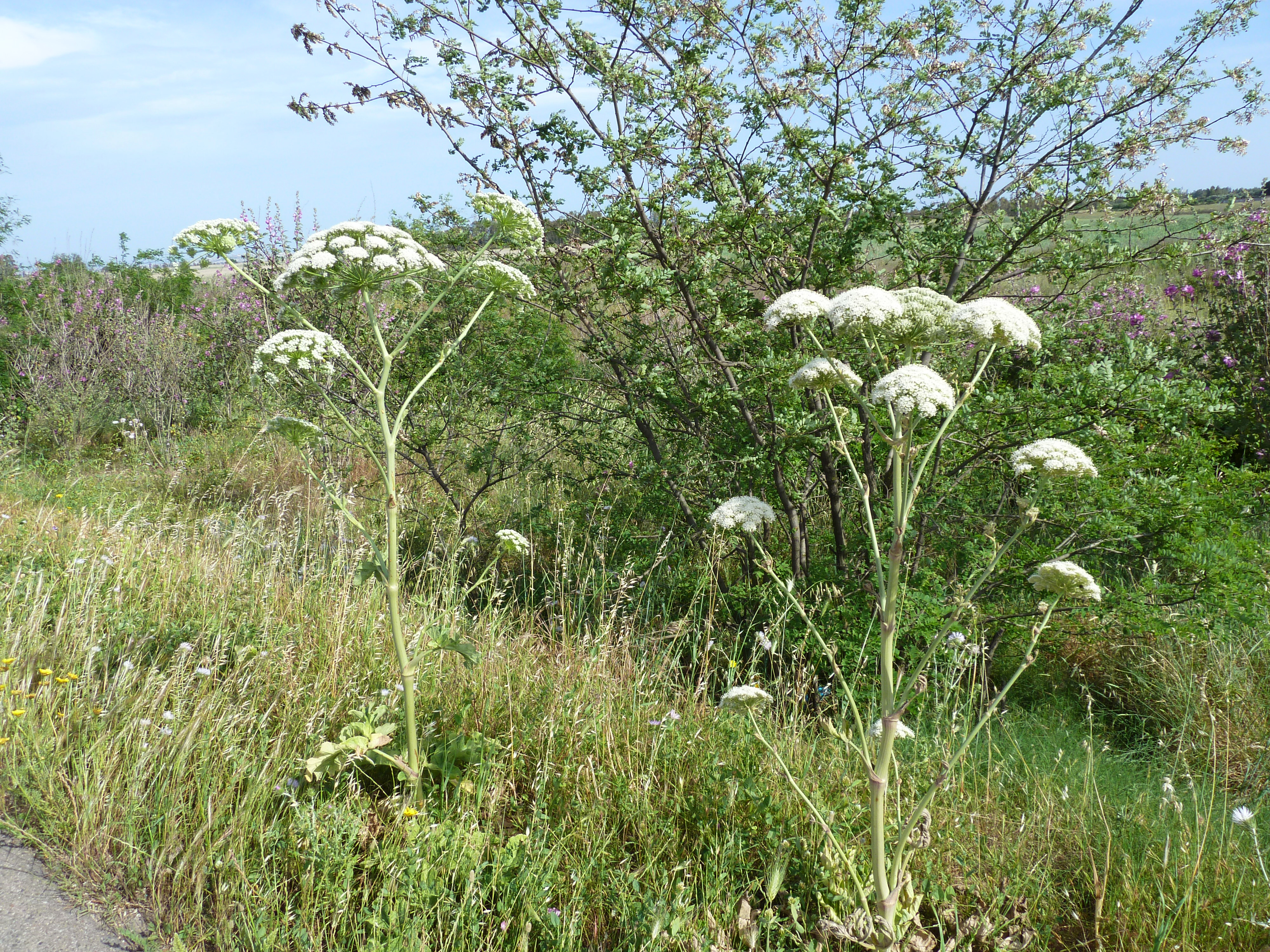 Magydaris pastinacea. Near Uta (CA), Sardinia